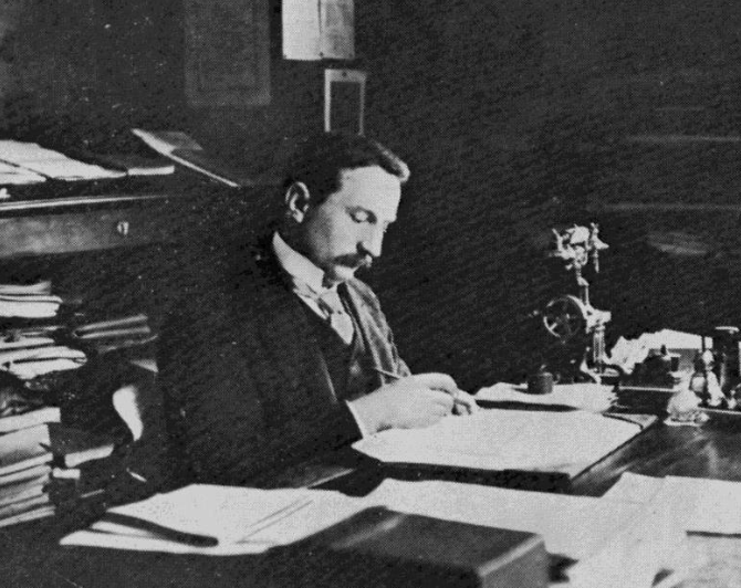 Photograph of Ioan Bianu, the Romanian bibliographer and literary historian, at his desk in the Bucharest Academy Library.